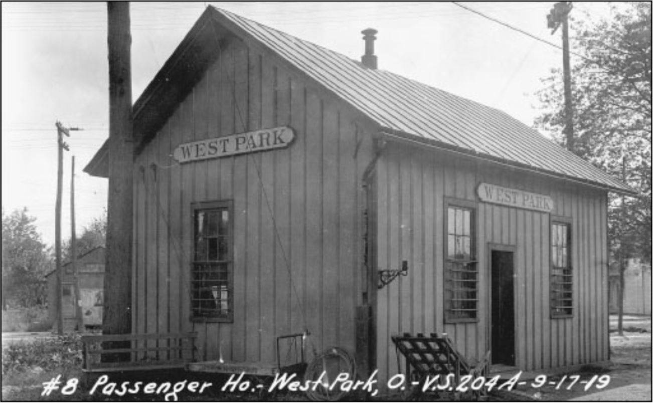 9-17-1919, West Park station, adjacent to current West Park station